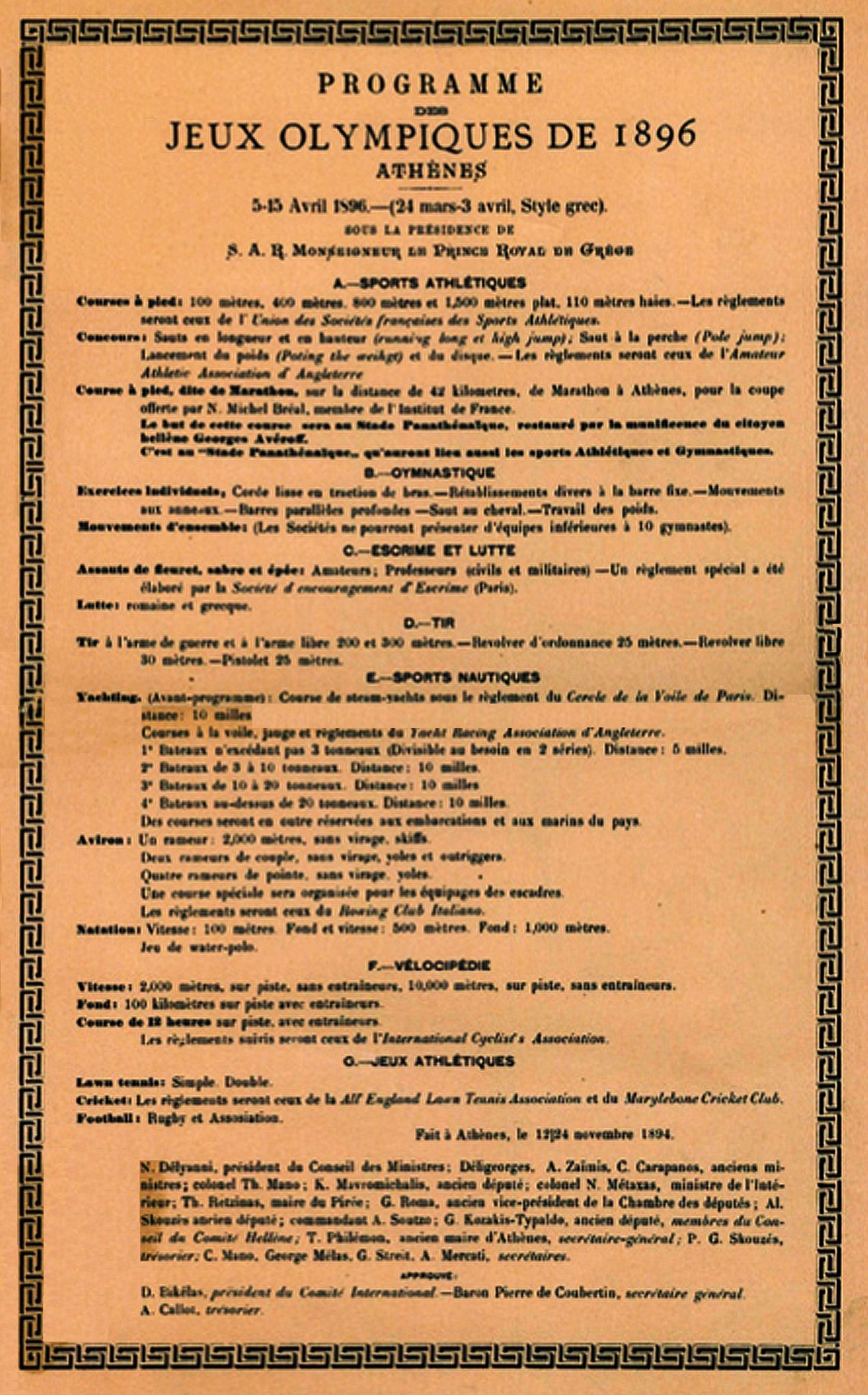 Exhibitions to mark 2,500 years from the Battle of Marathon. On the occasion of this year’s anniversary celebrating 2,500 years from the Battle of Marathon, the Foreign Ministry, in association with the Ministry of Culture, organizes, with the valuable help of Greece’s Embassies and Consular Authorities abroad, an exhibition of historical material from the personal collection of Mr. George Dolianitis, writer and owner of one of the most important collections of rare publications in Greece, to be held from 15 November to late-December 2010.